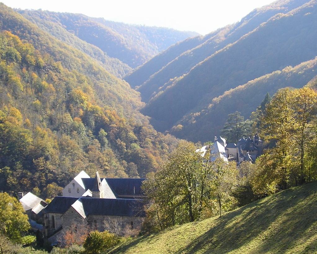 The cistercian abbey Our Lady of Bonneval, in Le Cayrol (France). Website